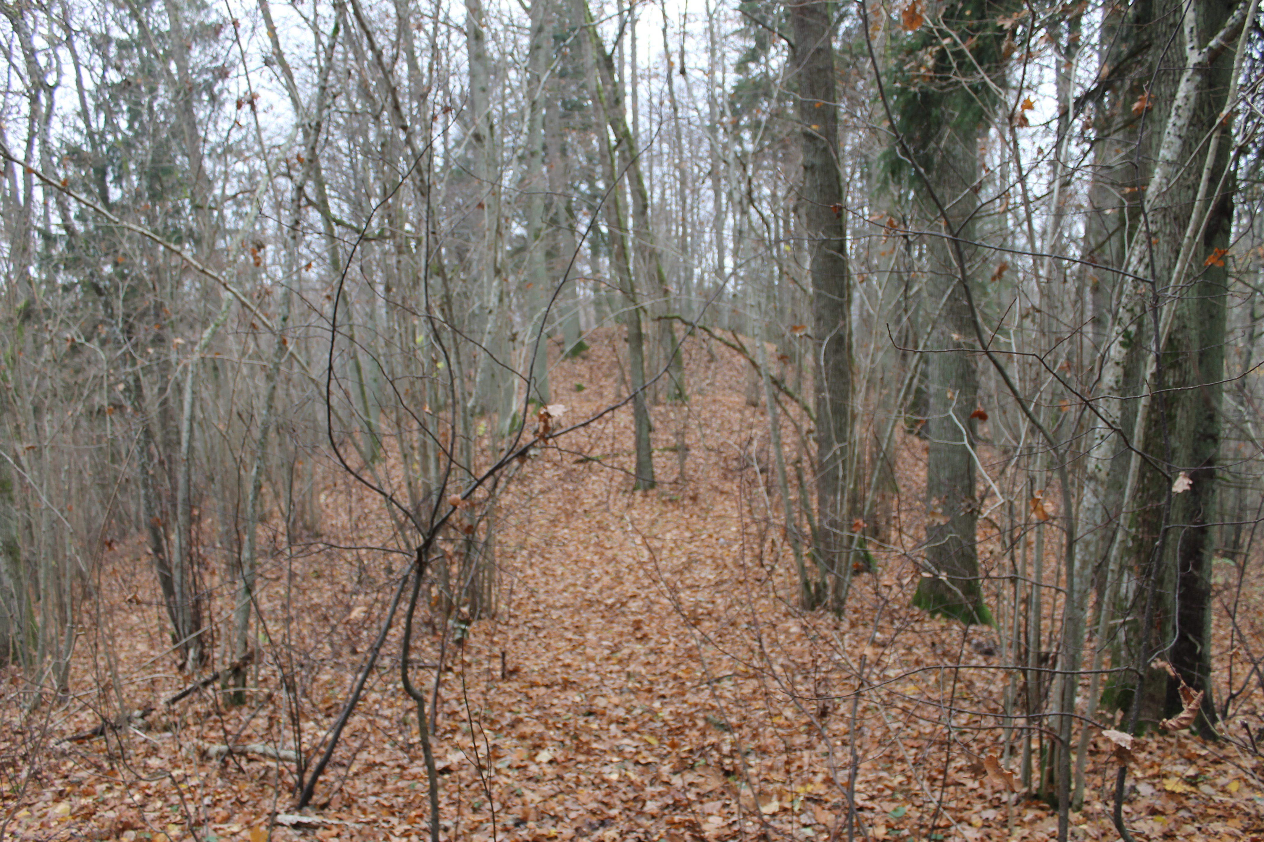 Kalno Grikštai Hillfort, Kretinga District Municipality, LithuaniaLietuvių: Kalno Grikštų II piliakalnis, Kretingos rajono savivaldybė, Lietuva